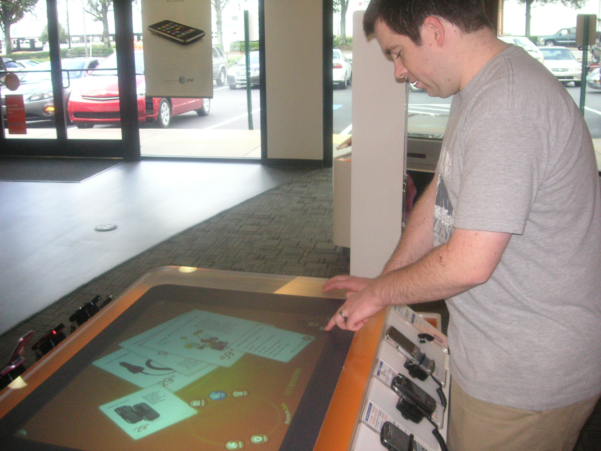 We made a pilgrimage to an AT&T store in Atlanta that has the Microsoft Surface integrated into their store. You could set a phone on the surface and it would recognize which one and give you features, colors, and plan options for it.